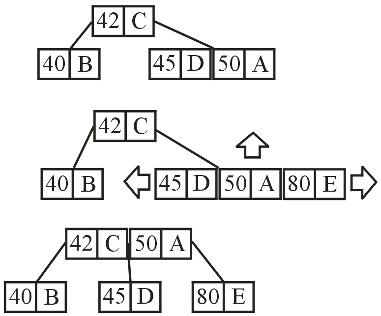 Non-trivial case of adding a new key to a b-tree. Author: Michael Angelkovich